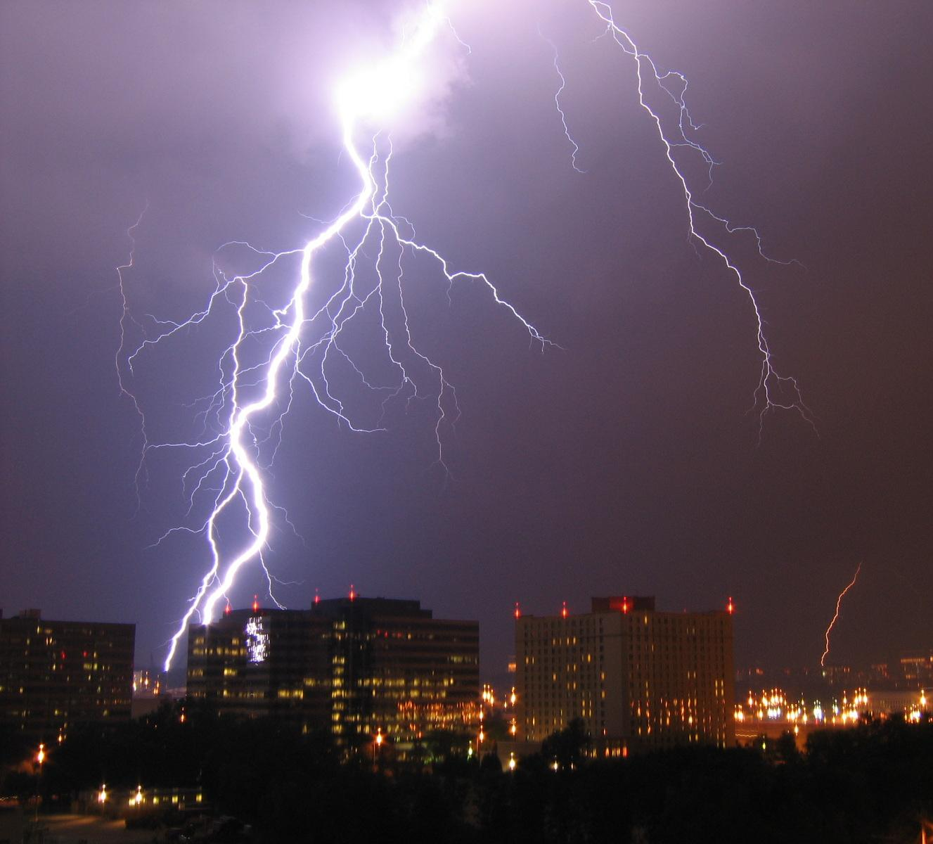 Lightning over Pentagon City in Arlington, Virginia.